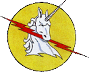 Emblem of the 368th Fighter Squadron (USAAF).